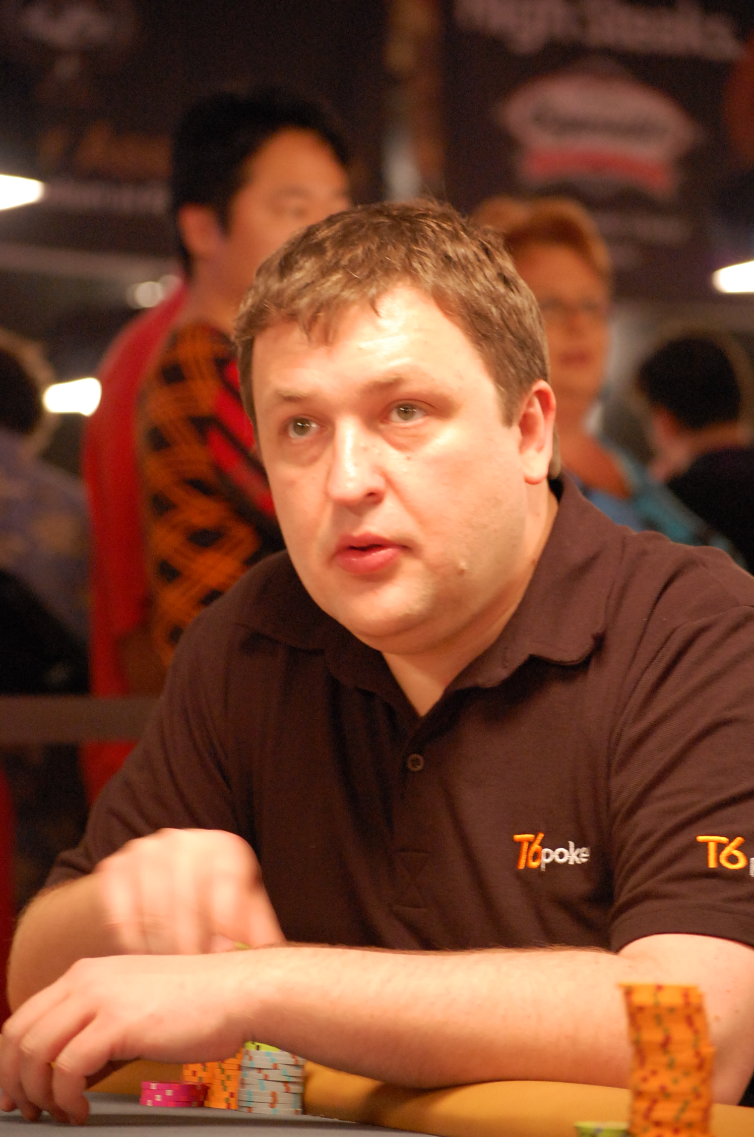 Tony G at the 2008 World Series of Poker